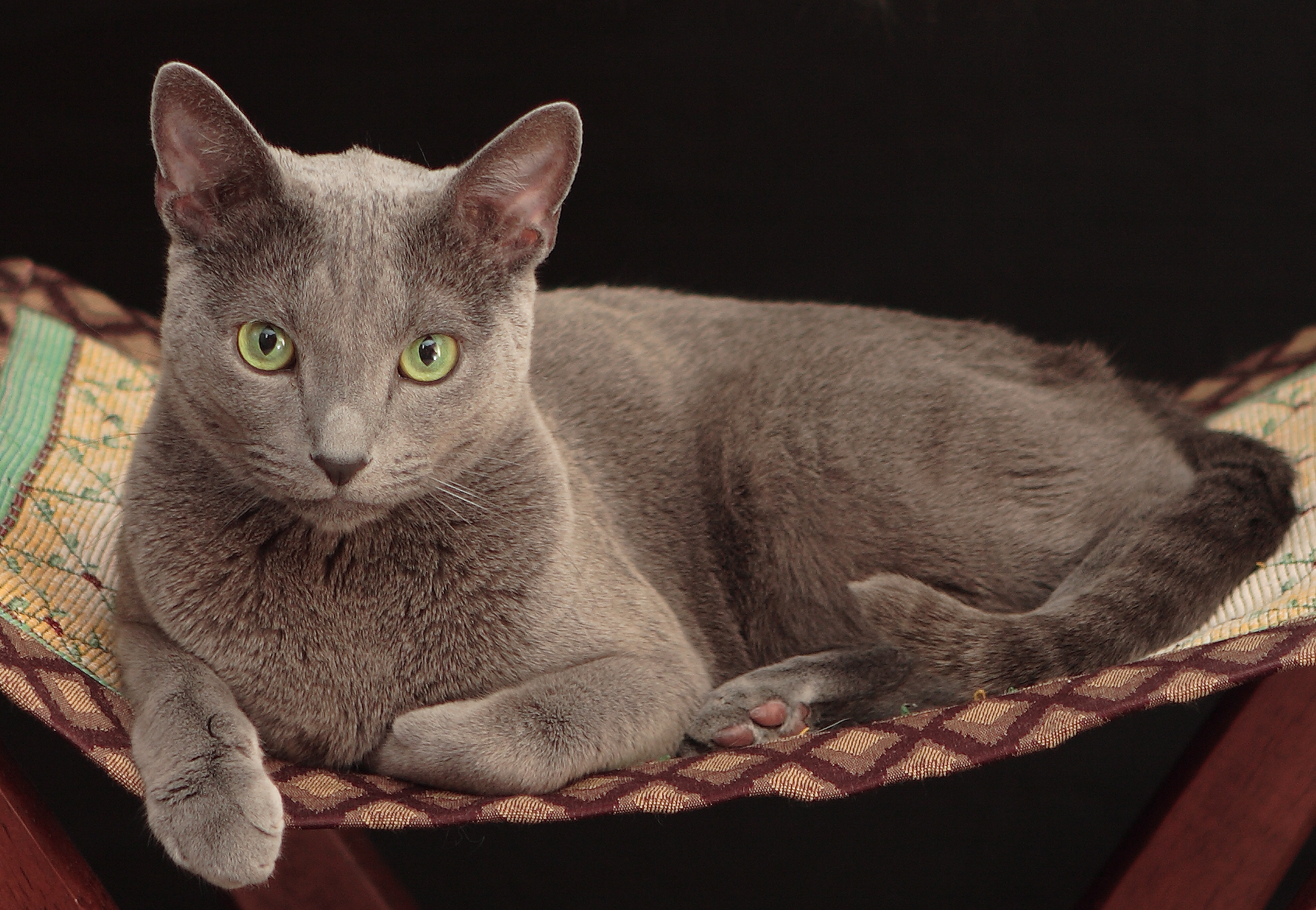 Russian Blue. American type. The breeder is Brad Kardux, Bluemews Cattery, Pennsylvania.